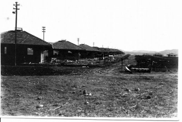 houses in Tel Or